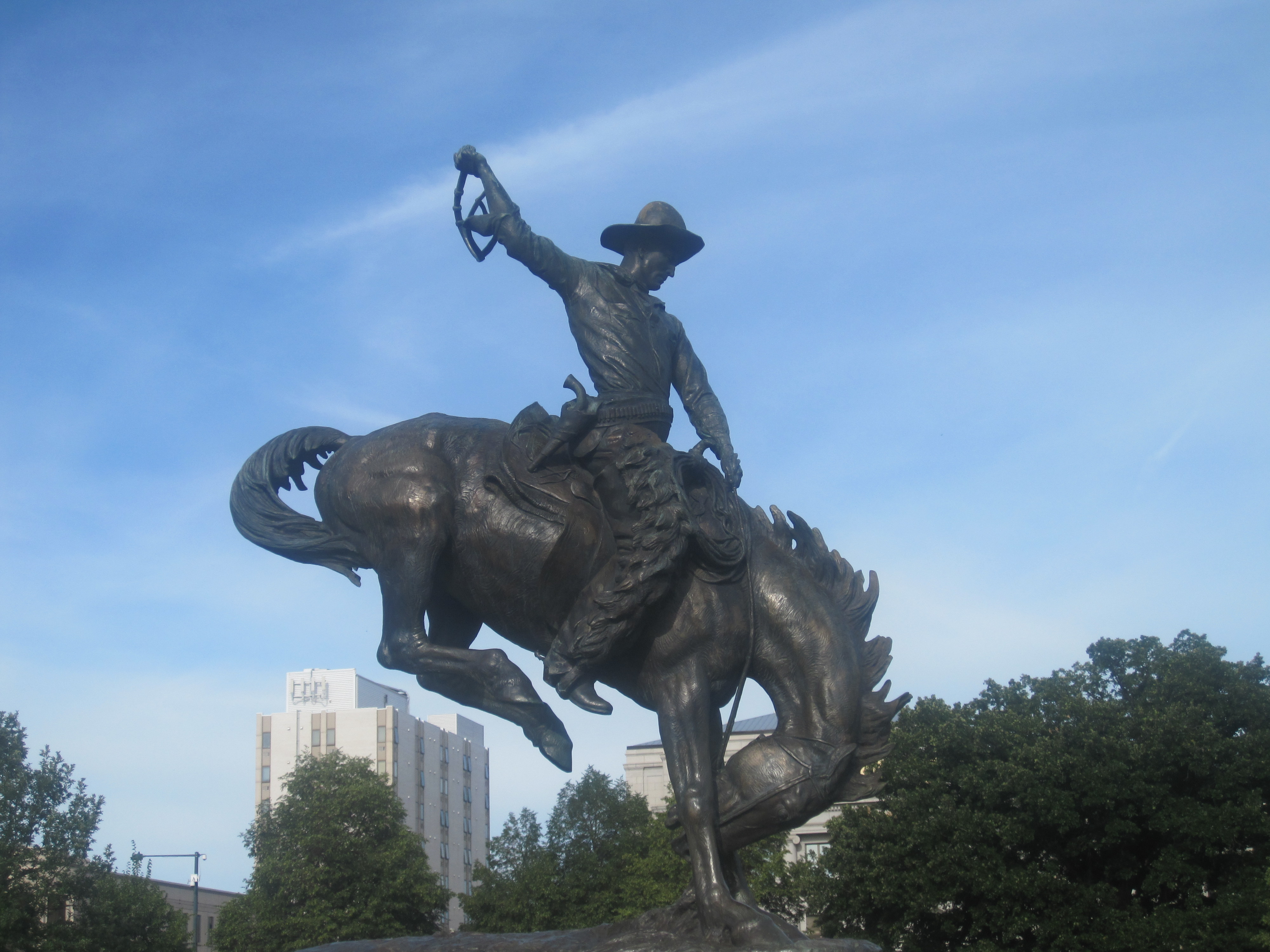 I took photo at Denver, CO, with Canon camera.